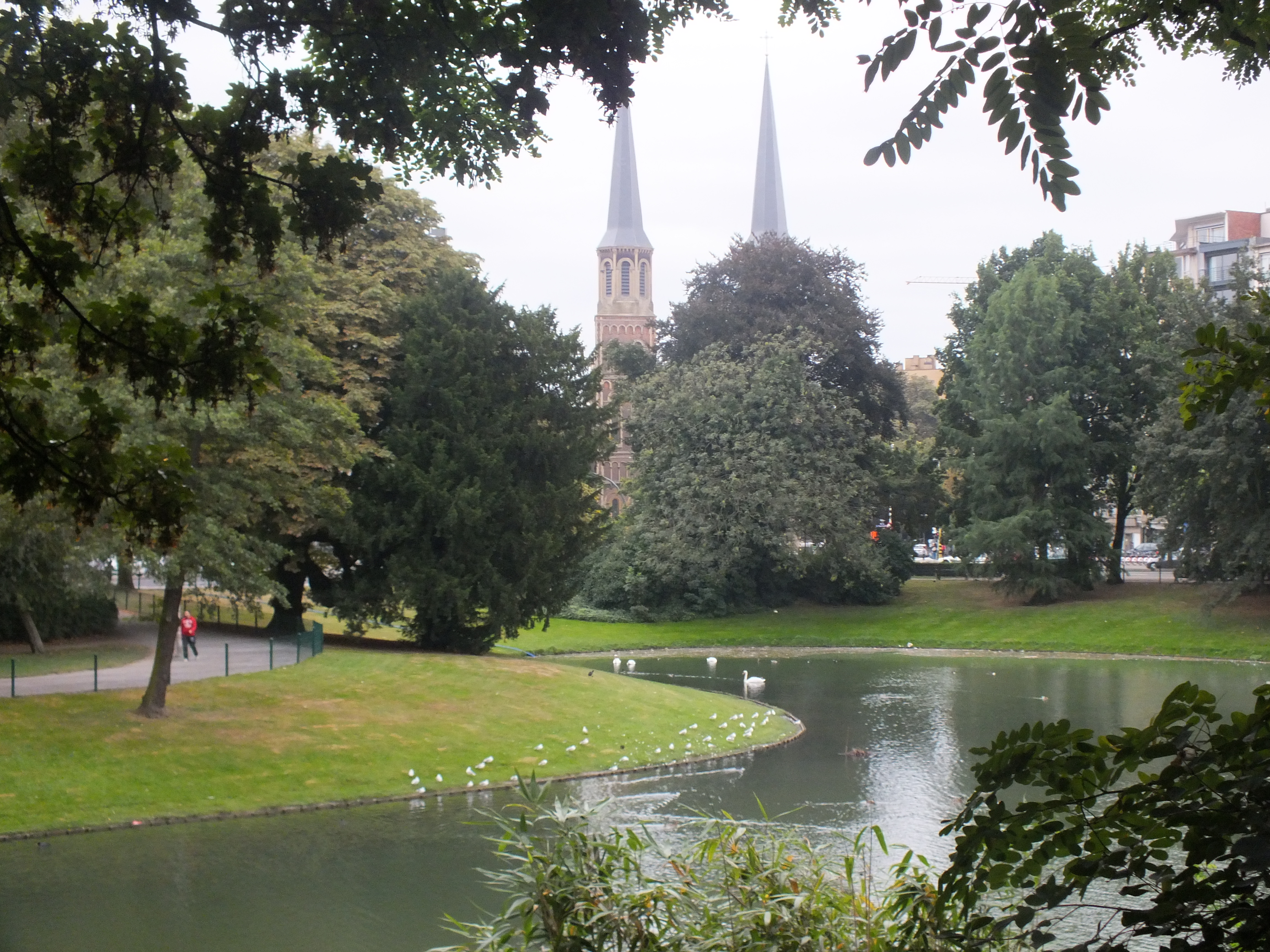 Facing the southeast vertex of the beautiful Stadspark there's all you need to just pull out the canvas and palette and start painting off. I think this place provides what you need from a city park.